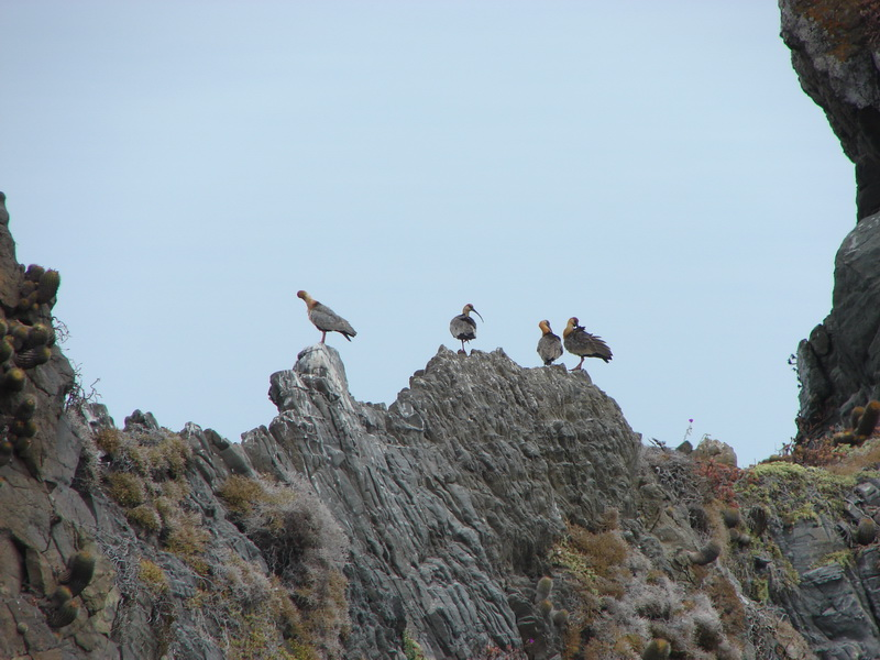 Theristicus melanopis, Los Vilos